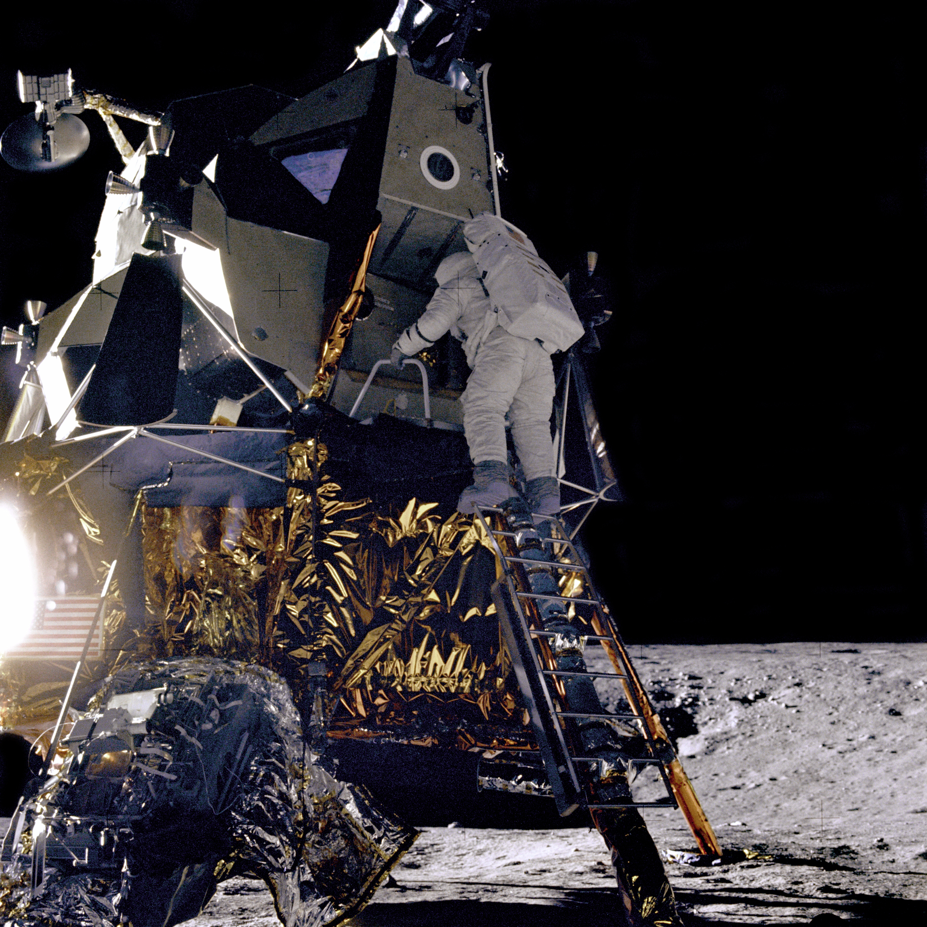 Alan L. Bean, Lunar Module pilot for the Apollo 12 mission, starts down the ladder of the Lunar Module (LM) "Intrepid" to join astronaut Charles Conrad, Jr., mission Commander, on the lunar surface.